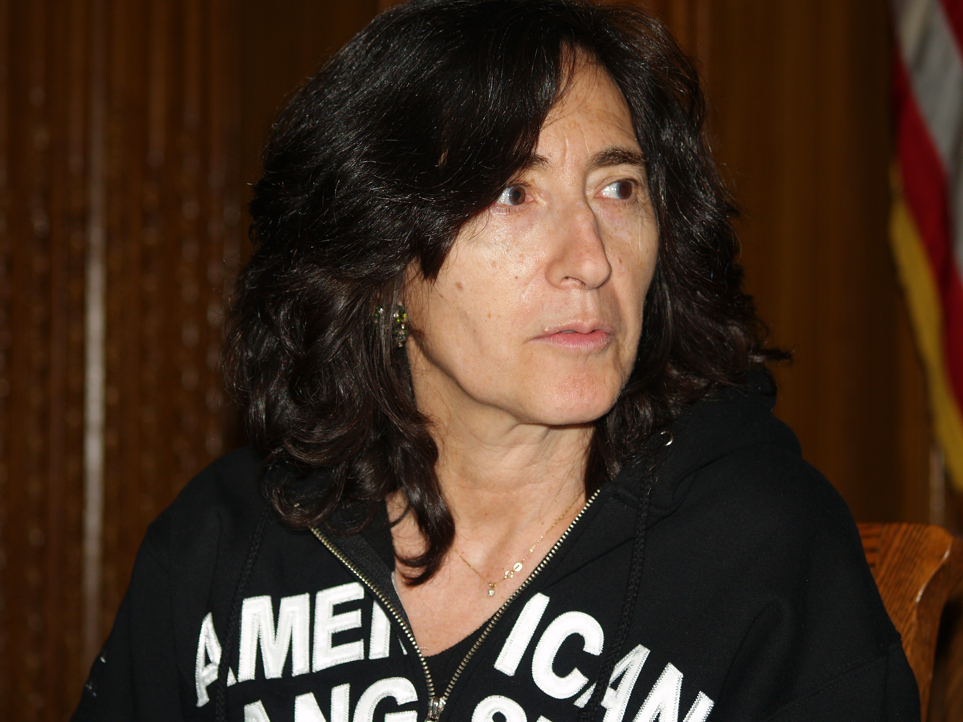 Francine Prose by David Shankbone